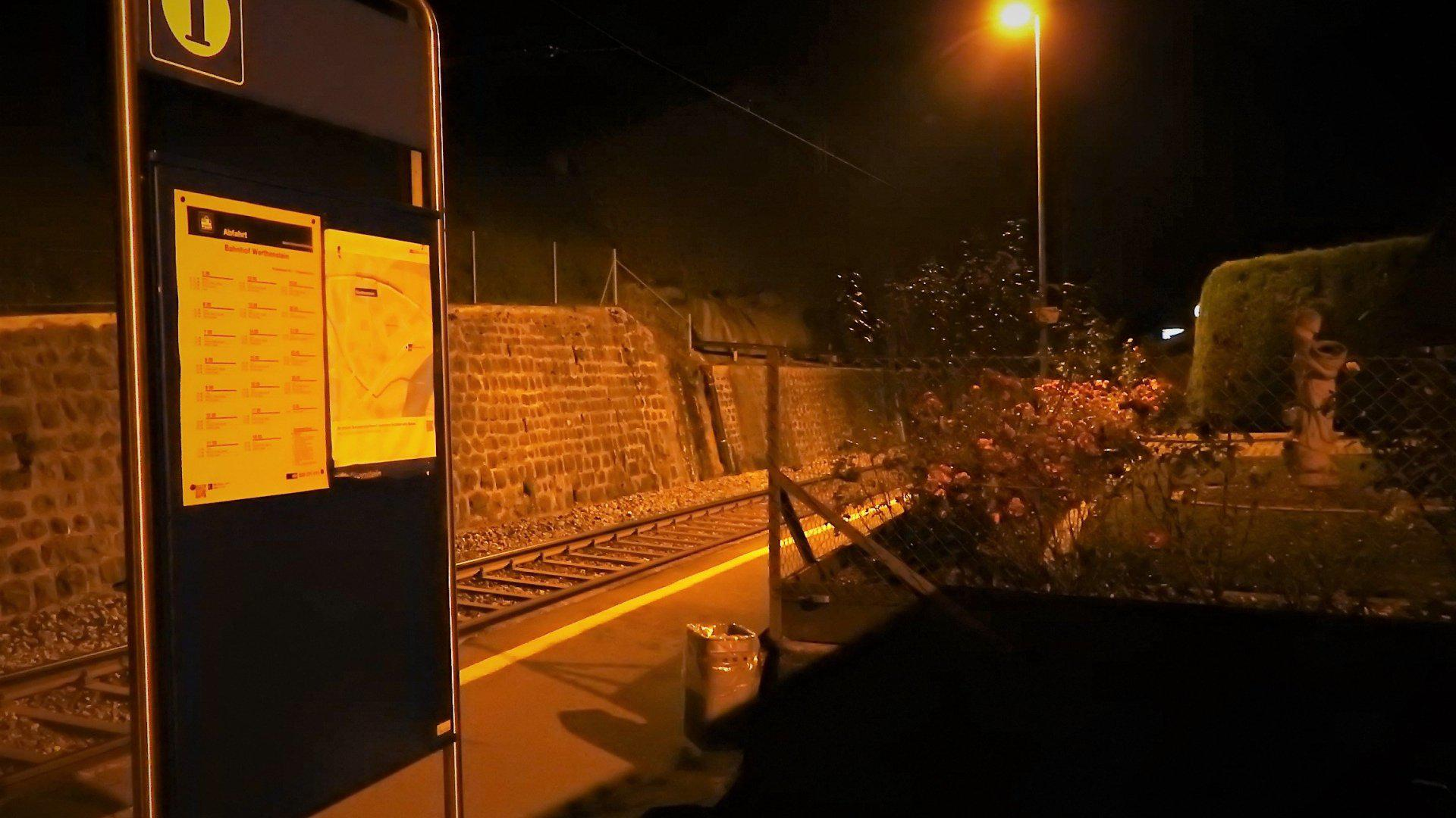 The timetable at Werthenstein railway station in Ruswil, Switzerland.